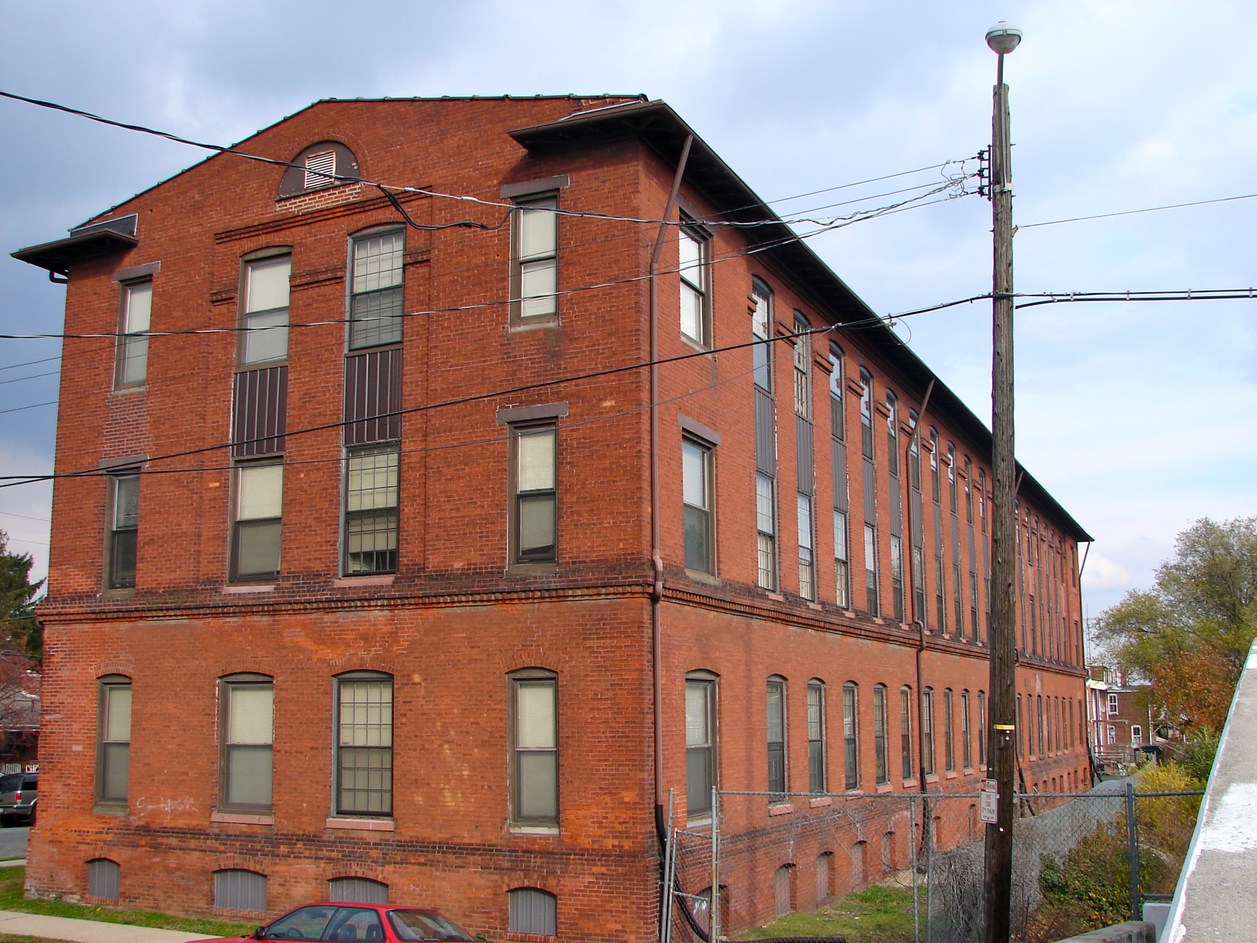 United Cigar Manufacturing Company since October 28, 1999. At 201 North Penn Street, York, York County, Pennsylvania.